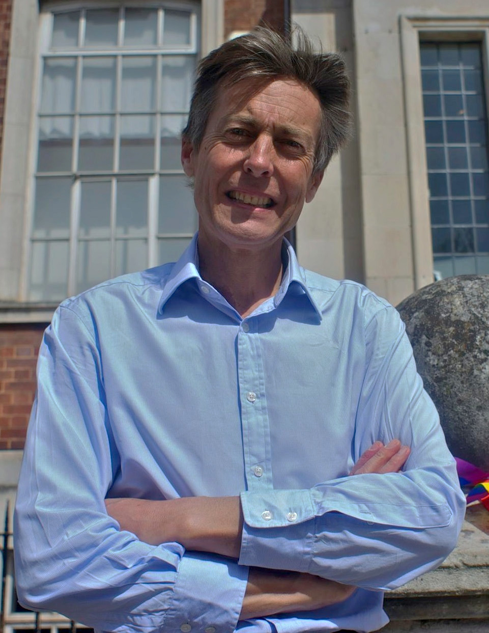 Ben Bradshaw at Exeter LGBT Pride 2011 Photo by Flickr user Gray Simpson (Graham Simpson)